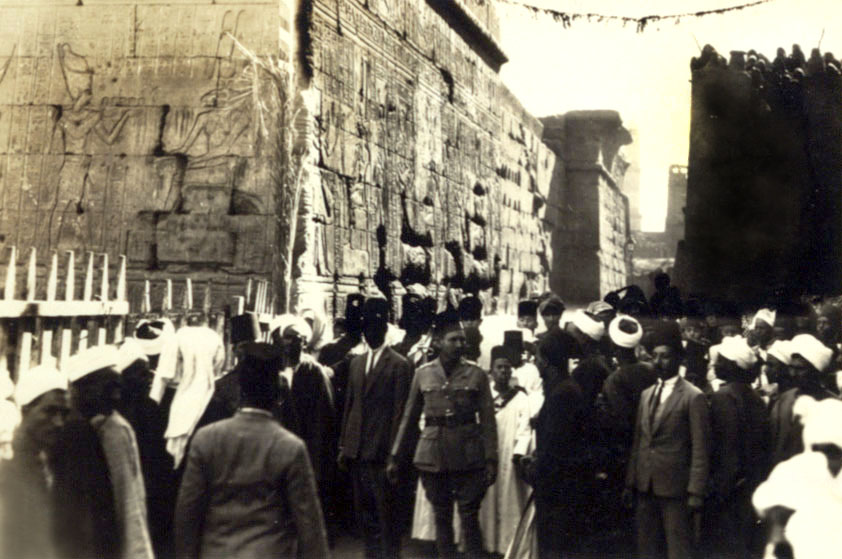 Opening ceremony of the Luxor-Aswan rail line 1926